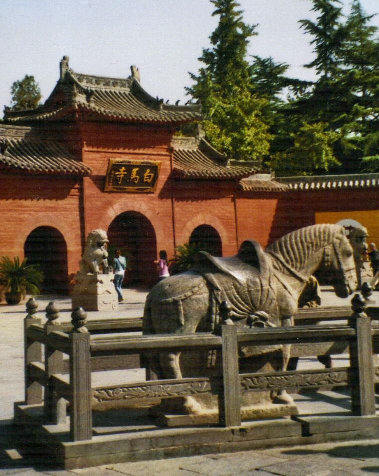 The shanmen at White Horse Temple, in Luoyang, Henan, China.